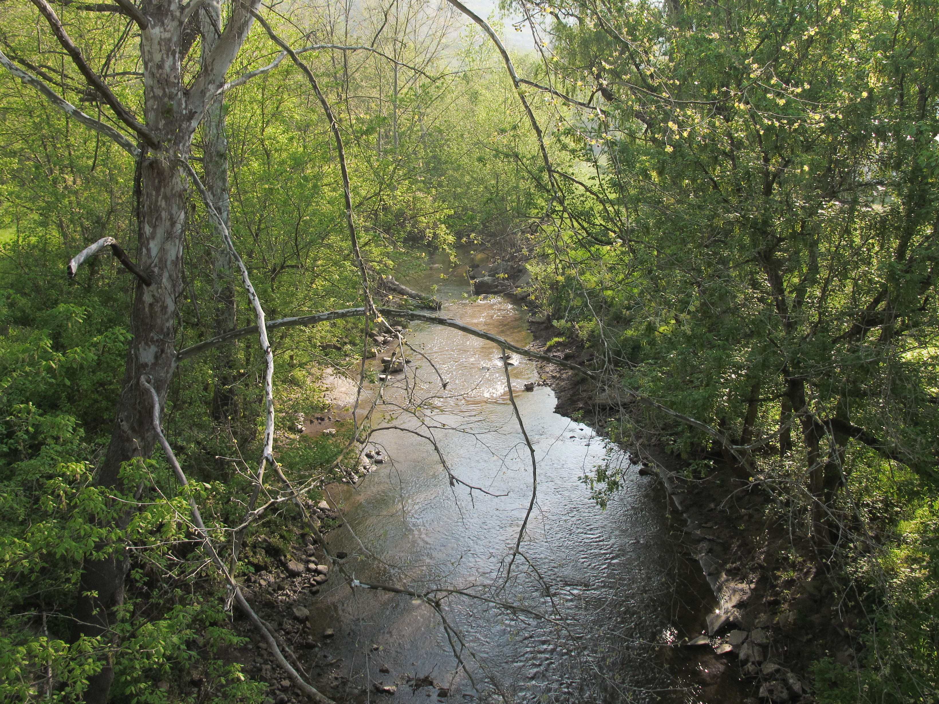 Buckeye Creek as viewed downstream from Smithton Road (County Road 50/30) east of Smithburg in Doddridge County, West Virginia.